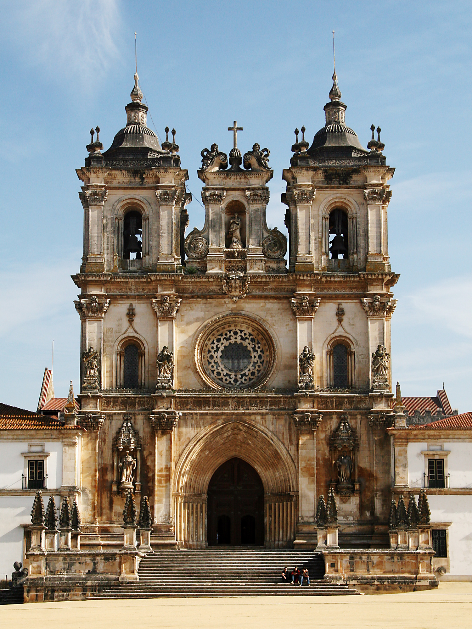 Front of the Alcobaça Monastery, Portugal